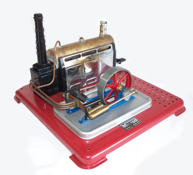 A Mamod SP5 engine. Permission granted by to upload this image.